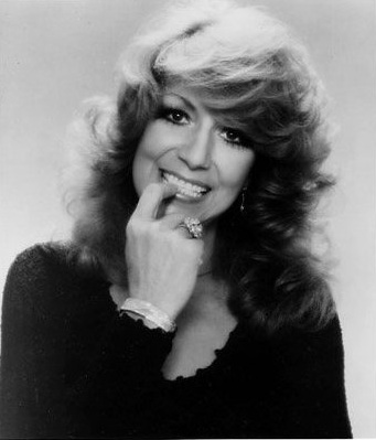 Dottie West promotional photo for her upcoming studio album (1977).